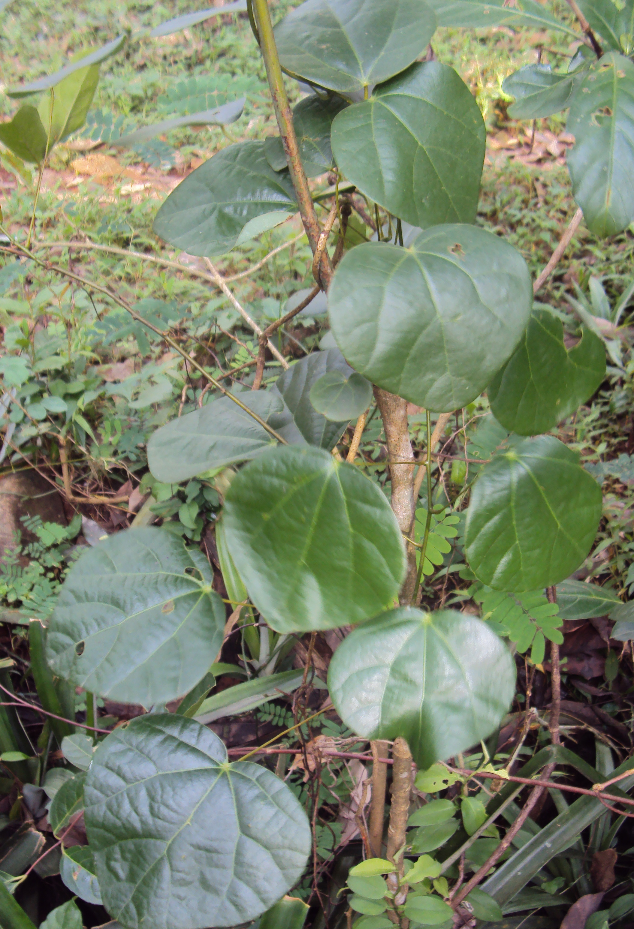 Diploclisia glaucascens - മലതാങ്ങി